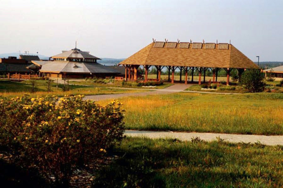 Oujé-Bougoumou Shaputan